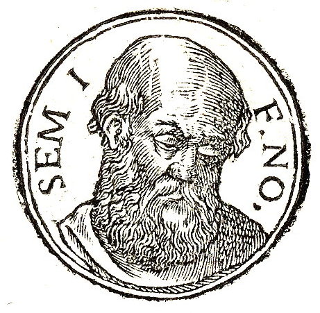 Shem was a son of Noah in Old Testament.